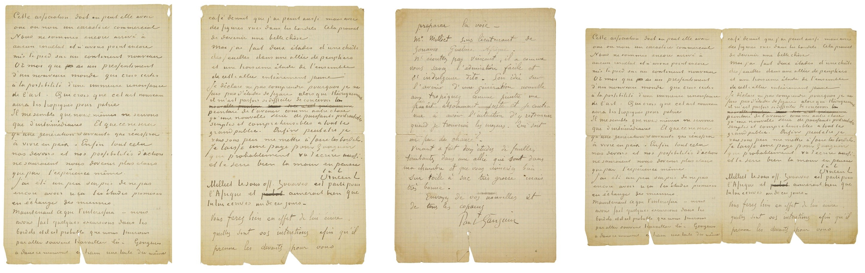 Letter from Vincent van Gogh and Paul Gauguin to Emile Bernard written 1 or 2 November 1888, letter 716 in the edition of the Van Gogh Museum, Amsterdam.